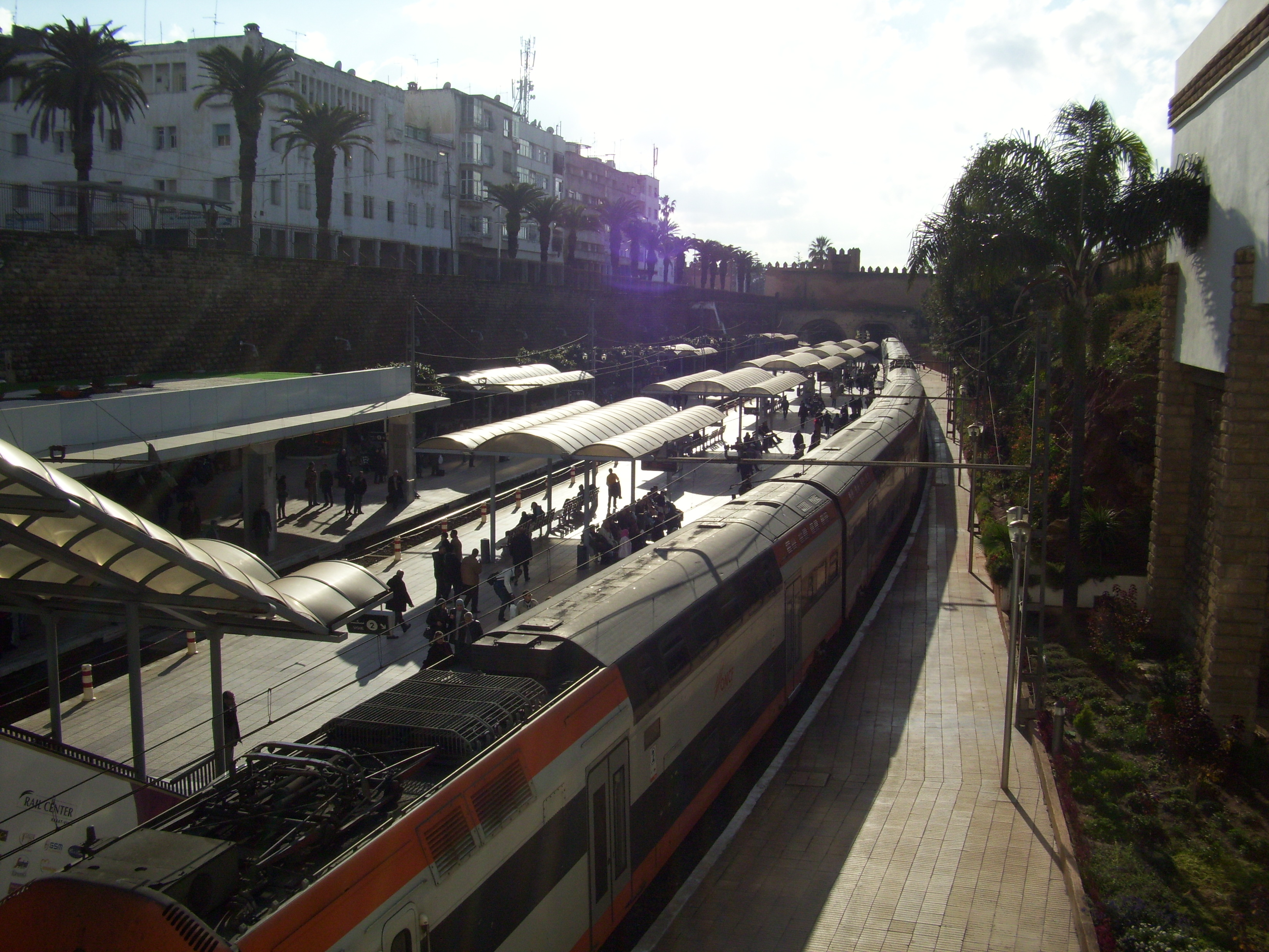 The station of Rabat Ville